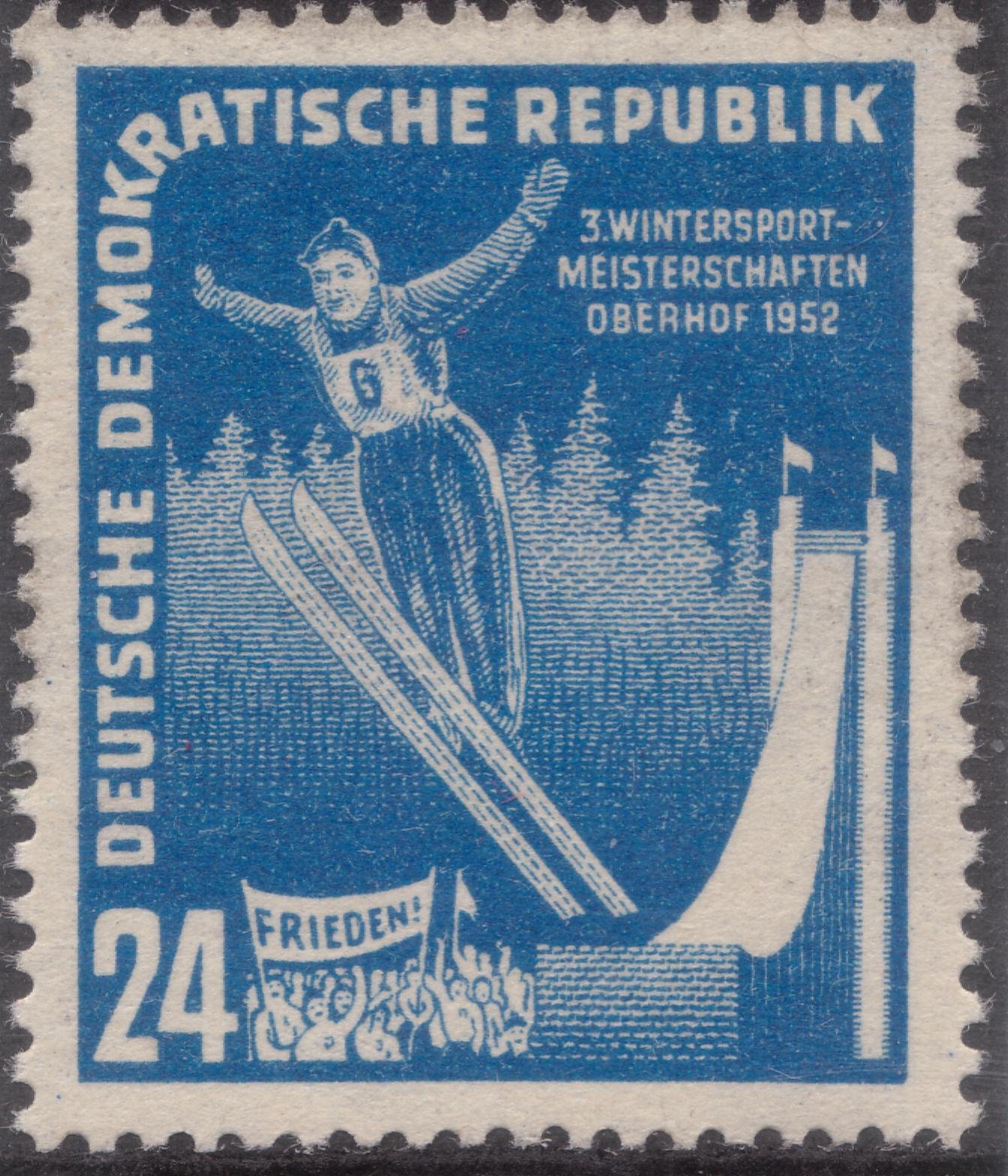 GDR's championship of winter sports at Oberhof Graphic designer: Liedke, Weber Ausgabepreis: 24 Pf First Day of Issue / Erstausgabetag: 12. Januar 1952 Michel-Katalog-Nr: 299